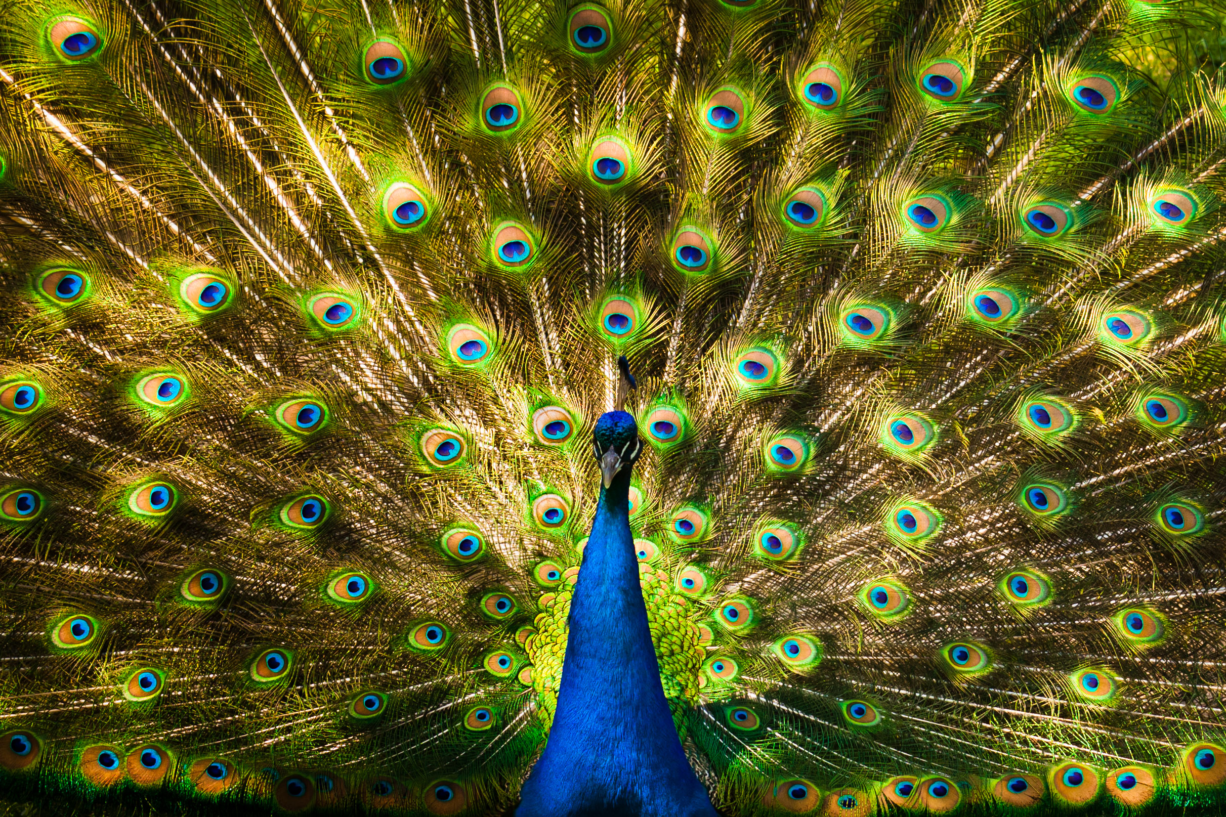 I've been to the Toronto Zoo a couple of times already over the past couple years and they have these peacocks that roam freely about the park. Over the years that I have been visiting the zoo, I have never actually seen a single peacock open up its tail feathers; all I've really gotten was several moonings. However, today, I actually got to see one open up its tail feathers and it was a good thing I had my camera with me! Looking at those multiple 'eyes' kinda makes me dizzy..... Toronto, Ontario